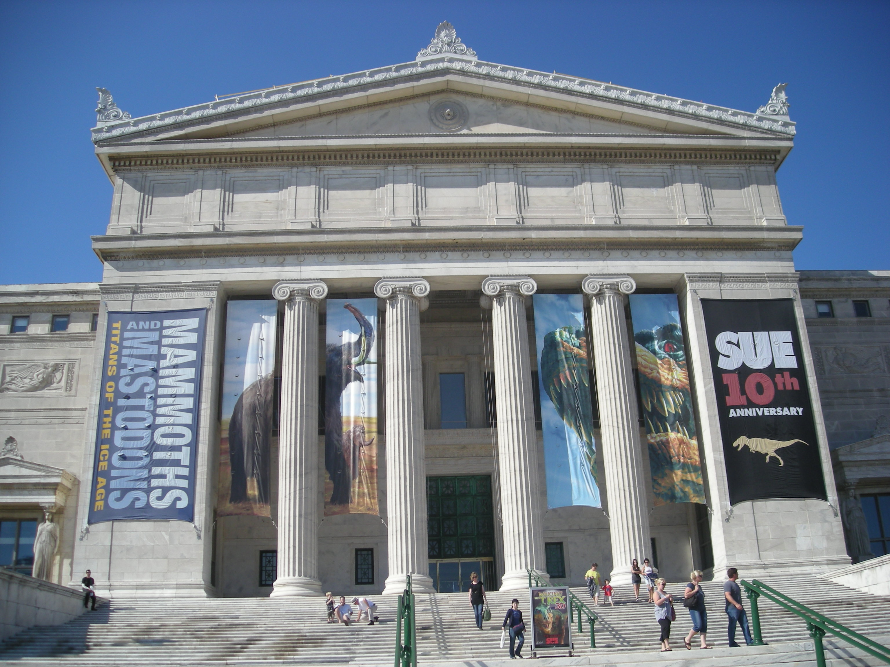 The south entrance of the Field Museum of Natural History in Chicago, Illinois (United States).